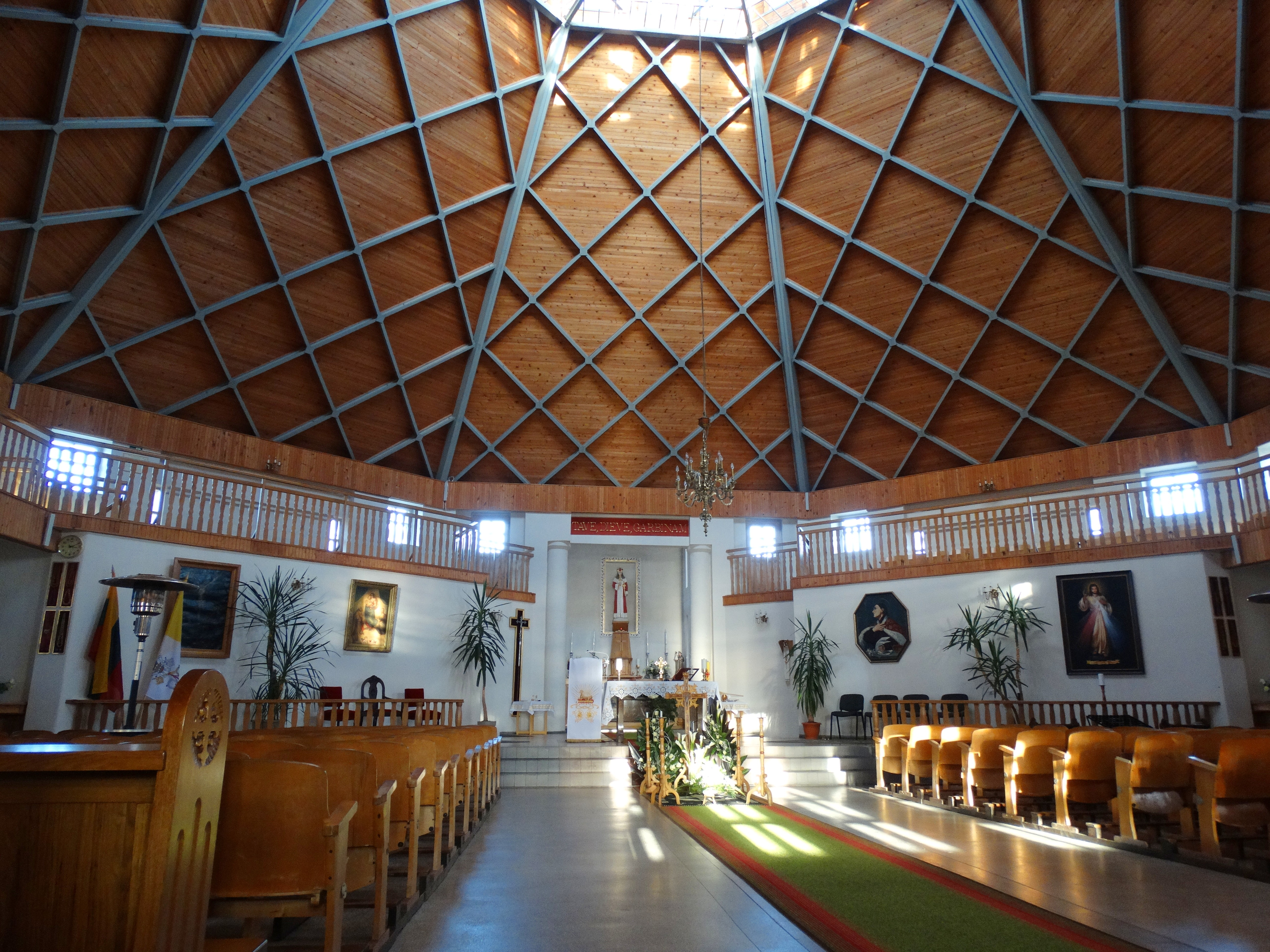 Saint Casimir church, interior, Kaunas (Aleksotas), Lithuania